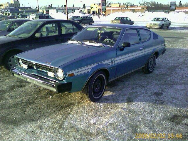 In the US there was the Plymouth Arrow - Canada also got a badge engineered version called the Dodge Arrow. Poor cell phone photo.